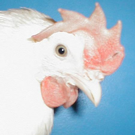 White Leghorn pullet whose beak has not been trimmed. See also photo of the same chicken after being debeaked.